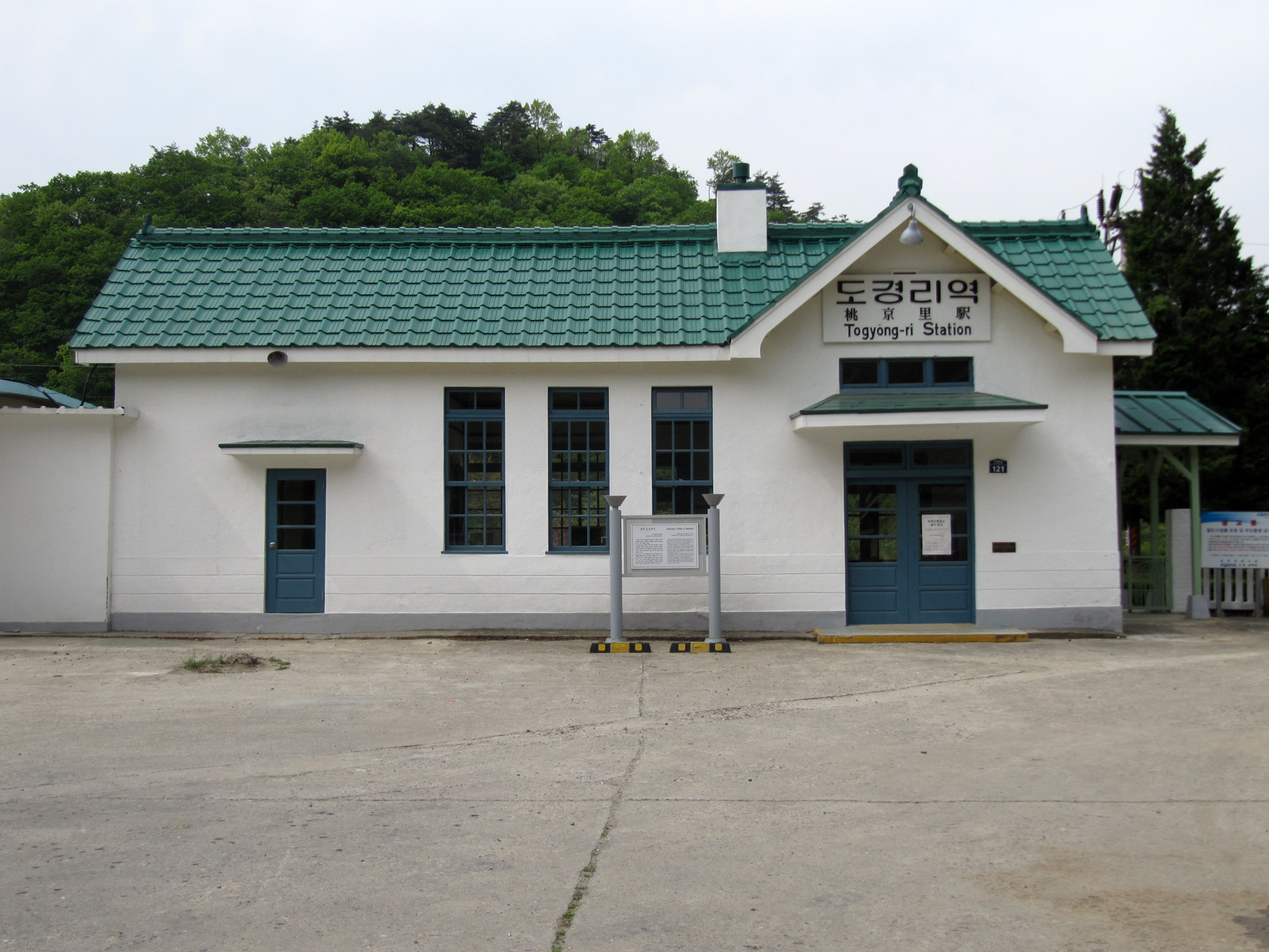 Obverse of Dogyeongni Station renewaled. Togyong-ri station